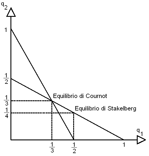 Cournot-Stakelberg equilibria